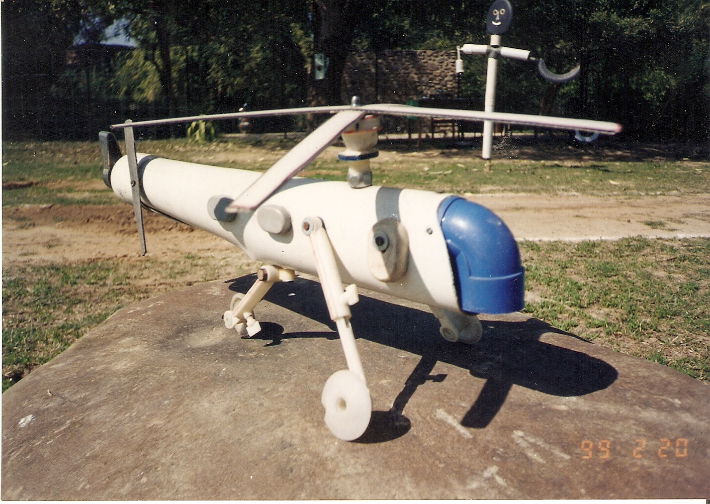 ALL the art pieces are purely waste sanitary items/products.